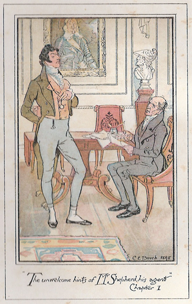 Persuasion (Jane Austen Novel). For Sir Elliot, baronnet, the hints of Mrs Sheppard, his agent, was very unwelcome.